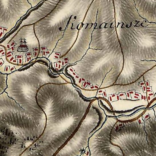 Komańcza